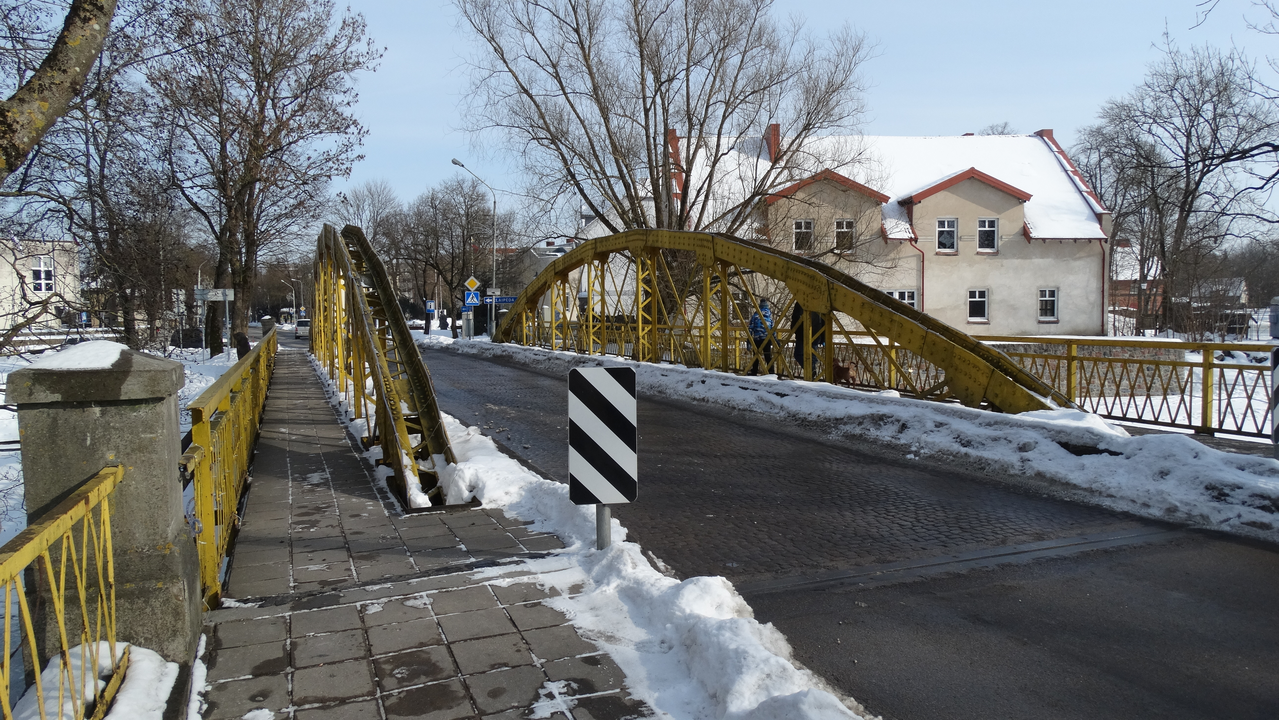 Yellow bridge, Šilutė, Lithuania